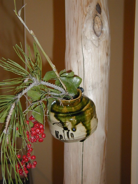 Winter chabana arrangement in an Oribe ware hanging vase.